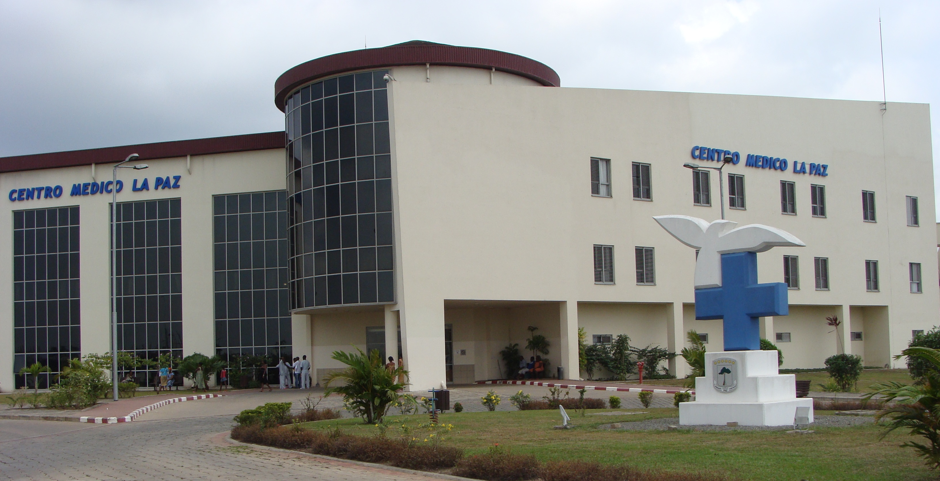 Photograph of the Centro Médico La Paz in Bata, Equatorial Guinea